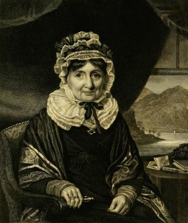 Portrait of Anne Grant (1755-1838), Scottish writer.